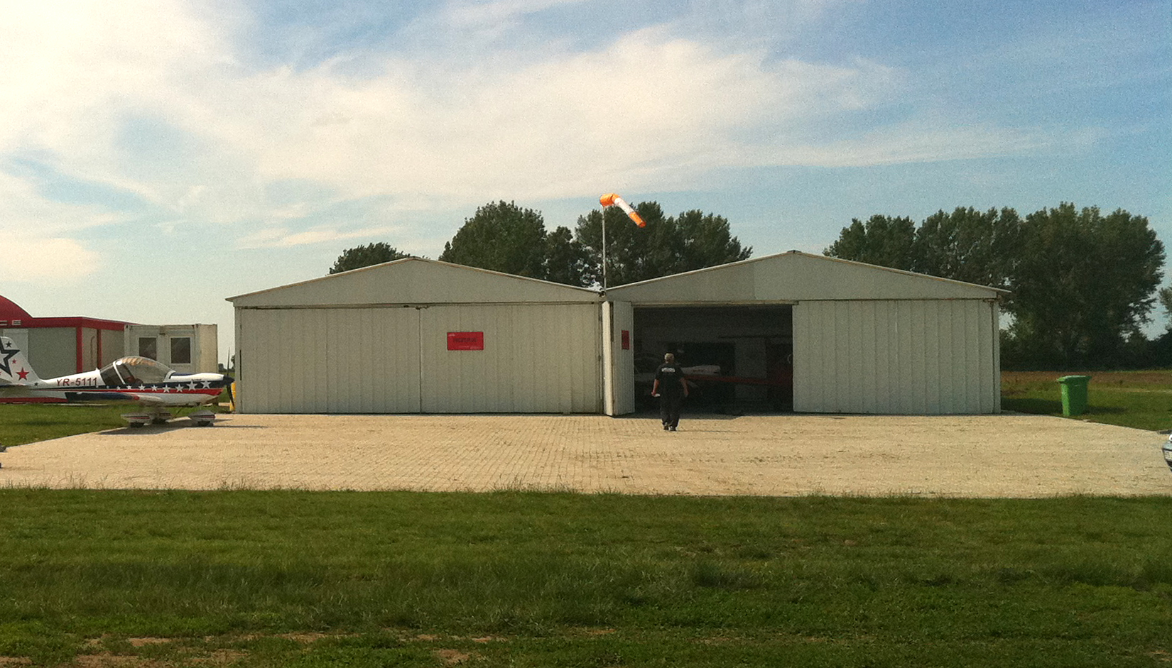 Fly Level Hangar at Clinceni Aerodrome